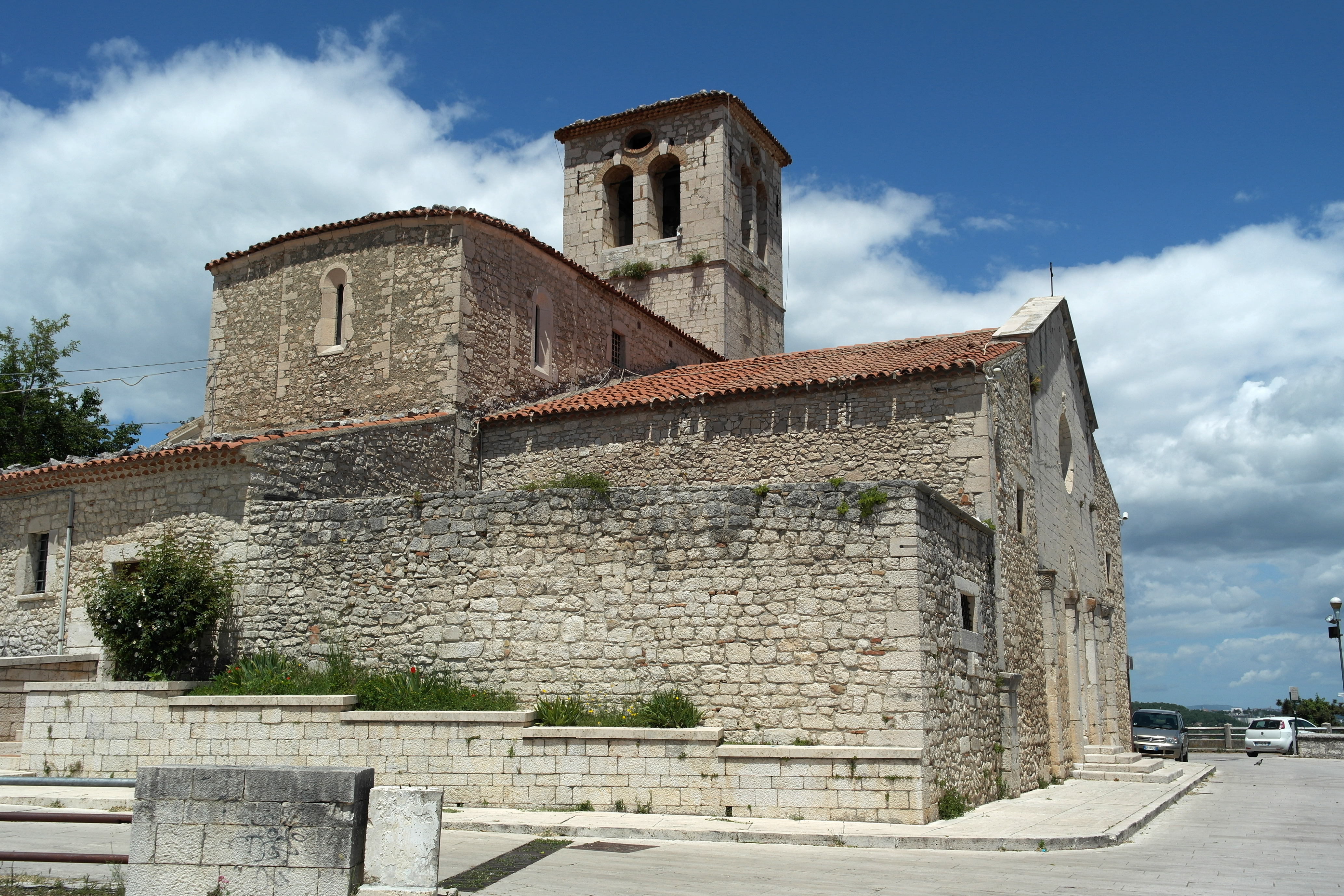 Old Town, 86100 Campobasso, Italy